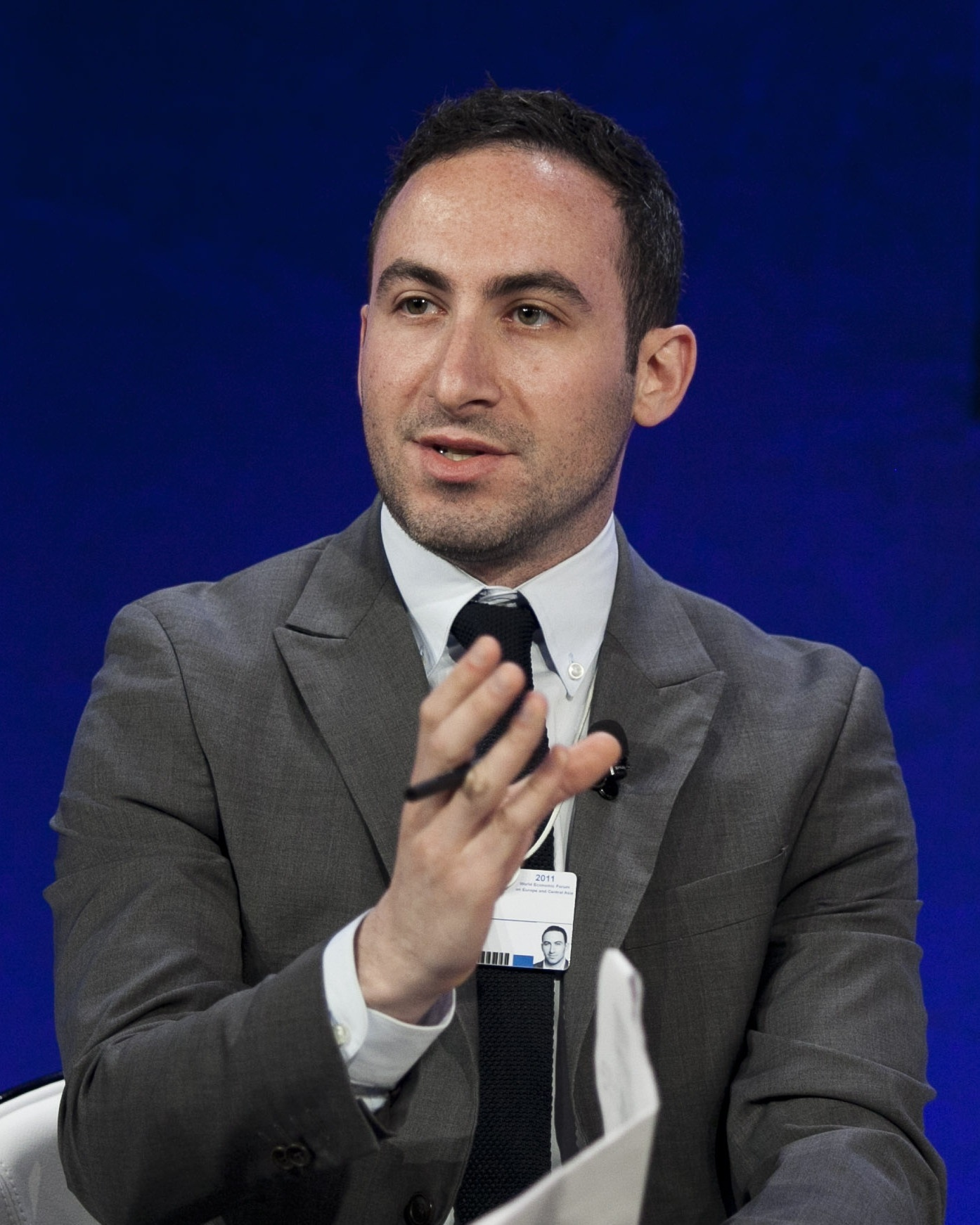 VIENNA/AUSTRIA, 9JUN11 - Adam Bly -Founder and Chief Executive Officer Seed Media Group USA at the World Economic Forum on Europe and Central Asia held in Vienna, Austria, June 9, 2011. Copyright World Economic Forum /Photo by Jakob Polacsek